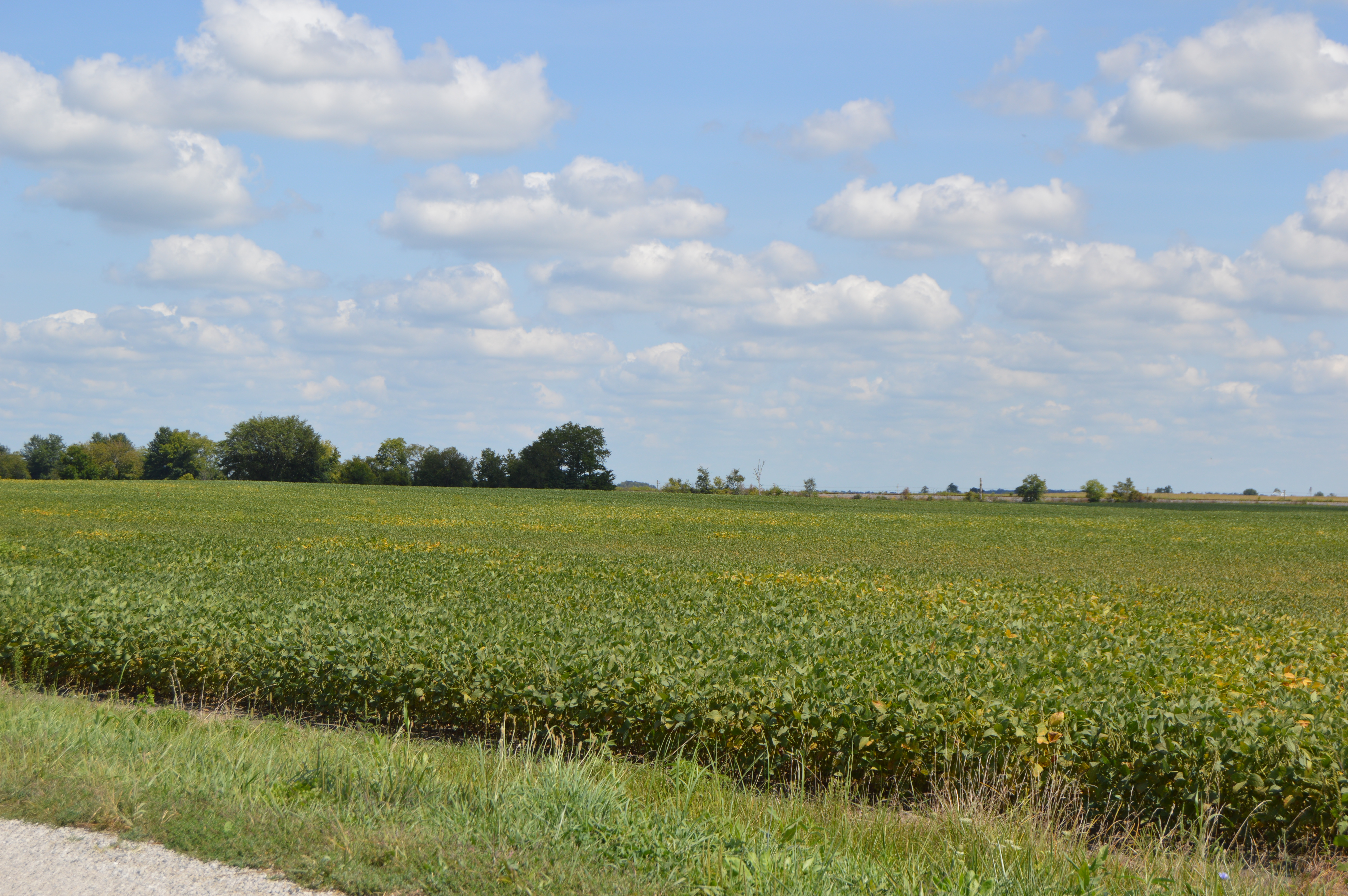 Looking northeast over soybean fields south of Morral from the junction of Goodnow and Marseilles-Galion Road in Salt Rock Township, Marion County, Ohio, United States.